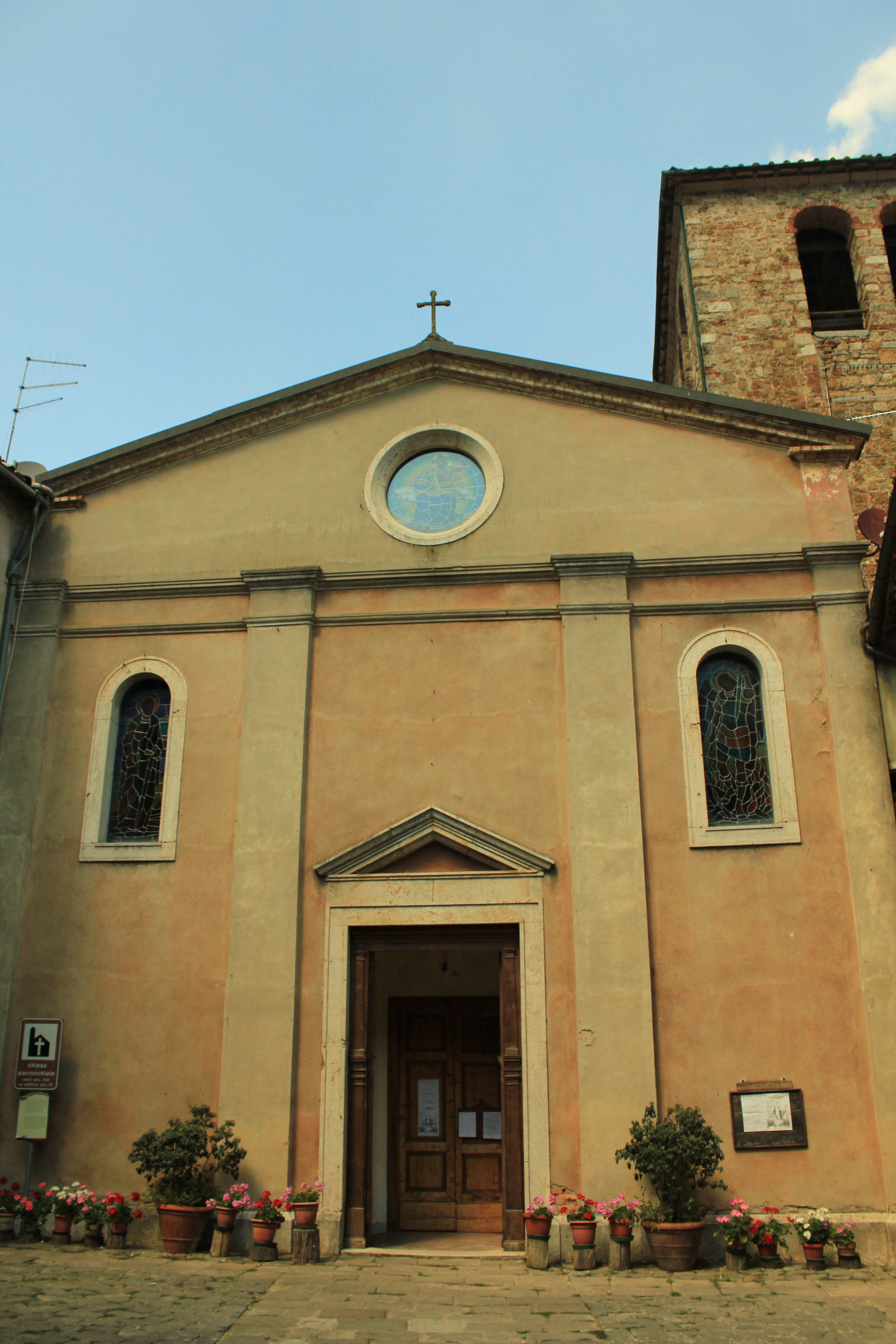 Church of San Paolo and San Michele in Montieri, Grosseto.